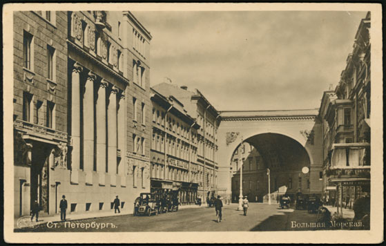 Saint Petersburg (Russia), Nevsky Prospekt.